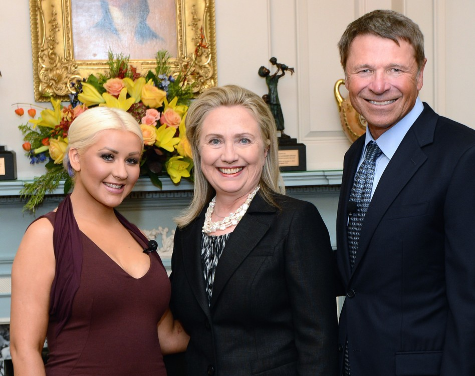 U.S. Secretary of State Hillary Rodham Clinton poses for a photo with David Novak, Chairman and CEO of Yum! Brands, right; and Christina Aguilera, United Nations World Food Program (WFP) Ambassador Against Hunger, left; at the World Food Program-USA Awards Ceremony at the U.S. Department of State in Washington, D.C., October 3, 2012. [State Department photo/ Public Domain]